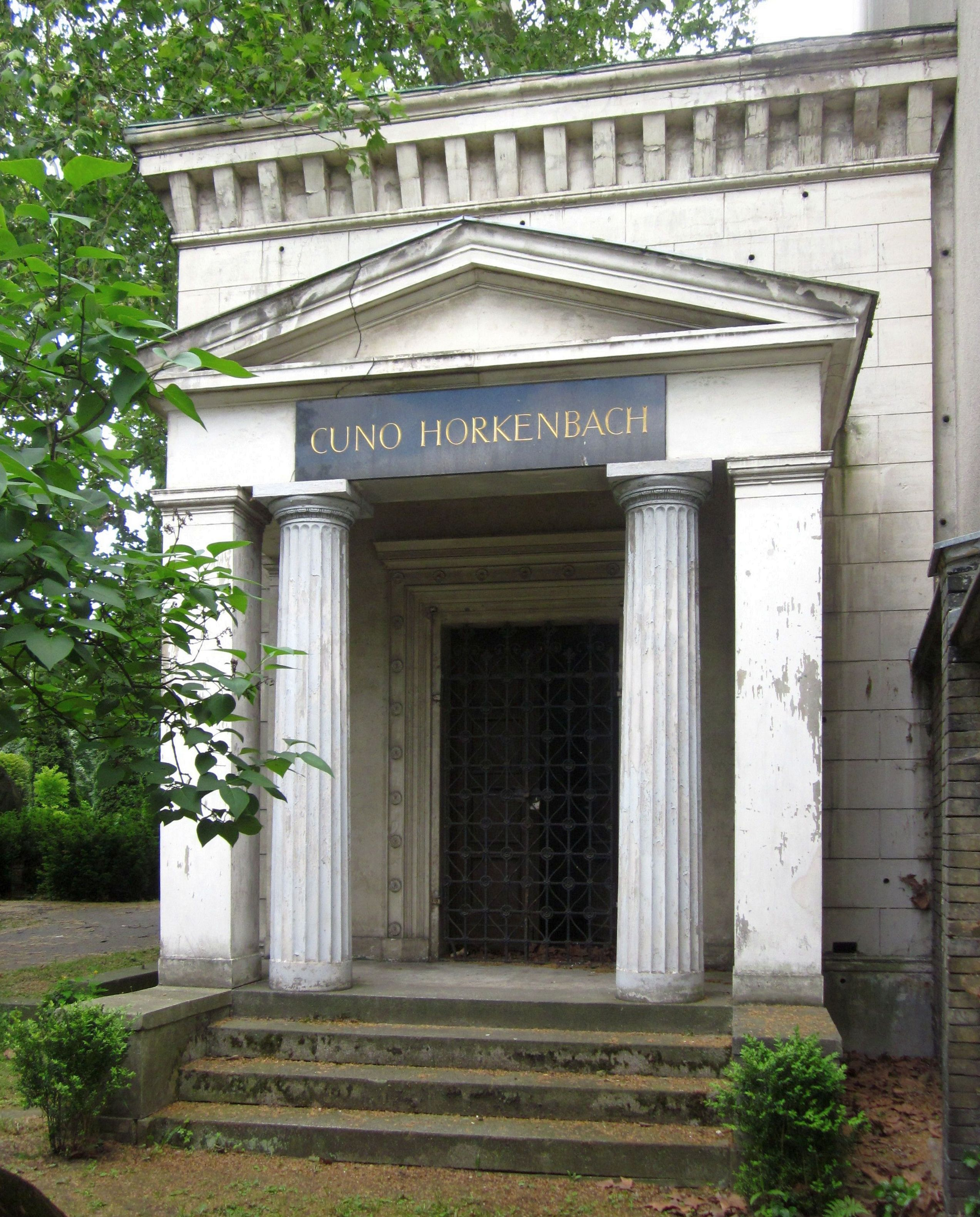 Mausoleum of the Horkenbach family on Dreifaltigkeitsfriedhof II cemetery at Bergmannstraße in Berlin-Kreuzberg. The building was probably constructed in 1860 by G. Schneider, the royal master bricklayer. The epigraph refers to the publisher Cuno Horkenbach (1883-1968) who is buried here.